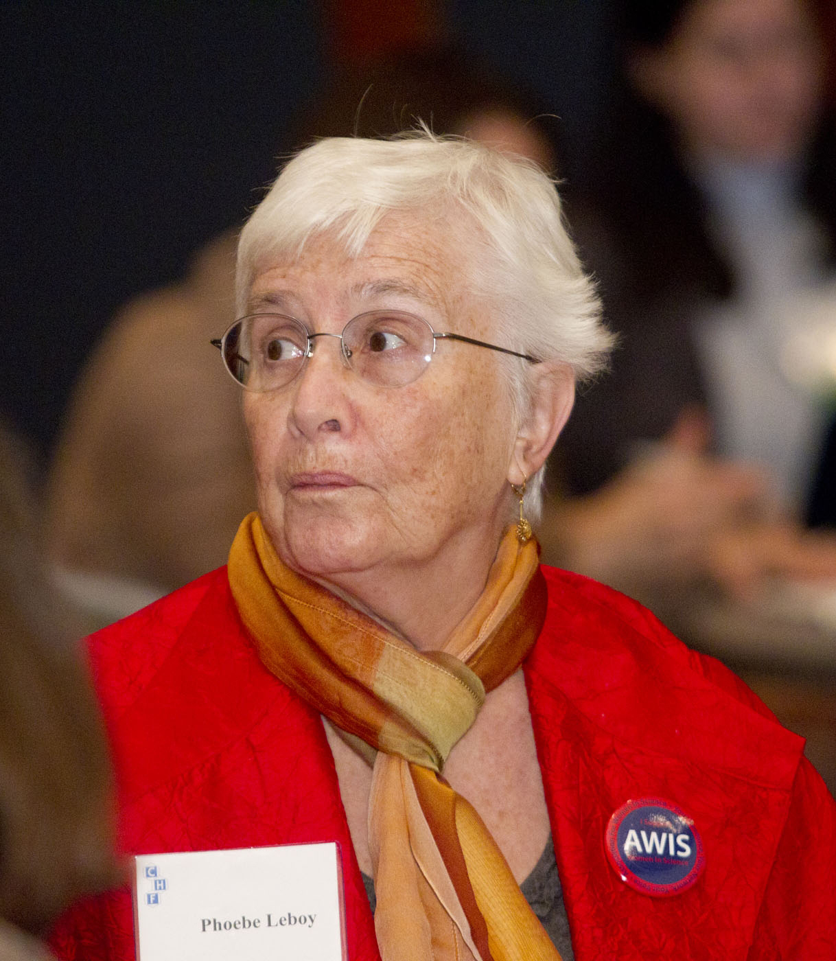 Photograph of Phoebe Starfield Leboy, National Past President 2008–2009 of the Association for Women in Science, at "Frontiers of Discovery: AWIS at 40 Years", celebrating the founding of the Association for Women in Science (AWIS), taken 21 October 2011, at the Chemical Heritage Foundation, Philadelphia, PA, USA.